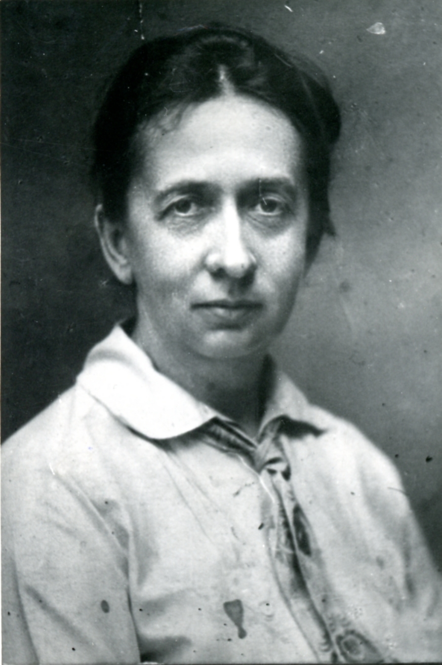 Wanda Haberkant (1871-1930), a naturalist who developed methods of teaching biology in Poland, doctorate in chemistry from Université de Genève (1897).